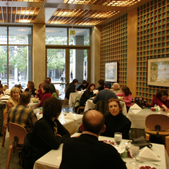 Cafe